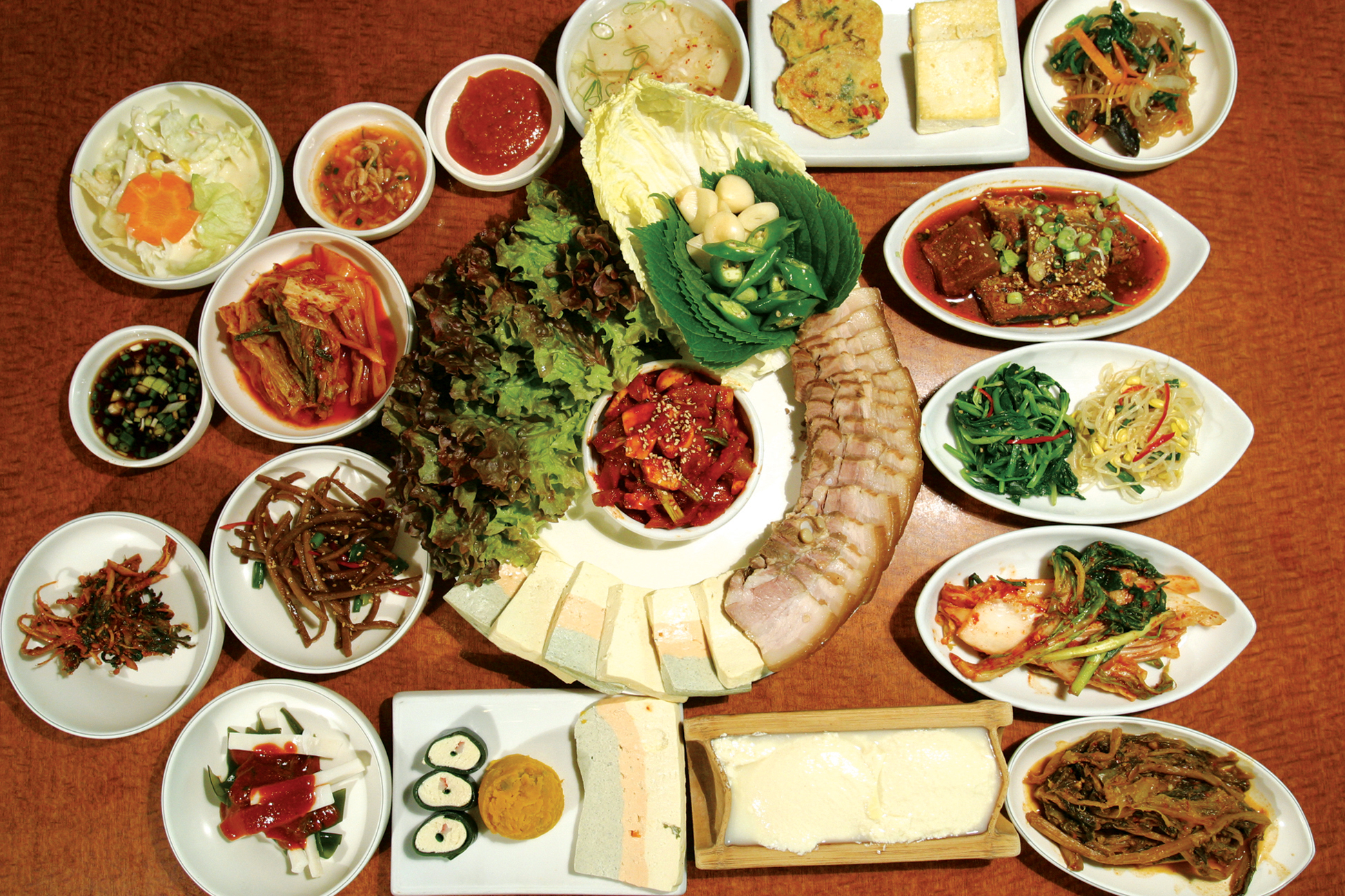 Thin slices of boiled pork, served with kimchi that is used to wrap the meat